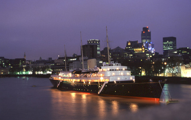 HMY Britannia in the Pool of London for the very last time, 11/97.